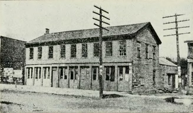 Illustration in History of Iowa From the Earliest Times to the Beginning of the Twentieth Century